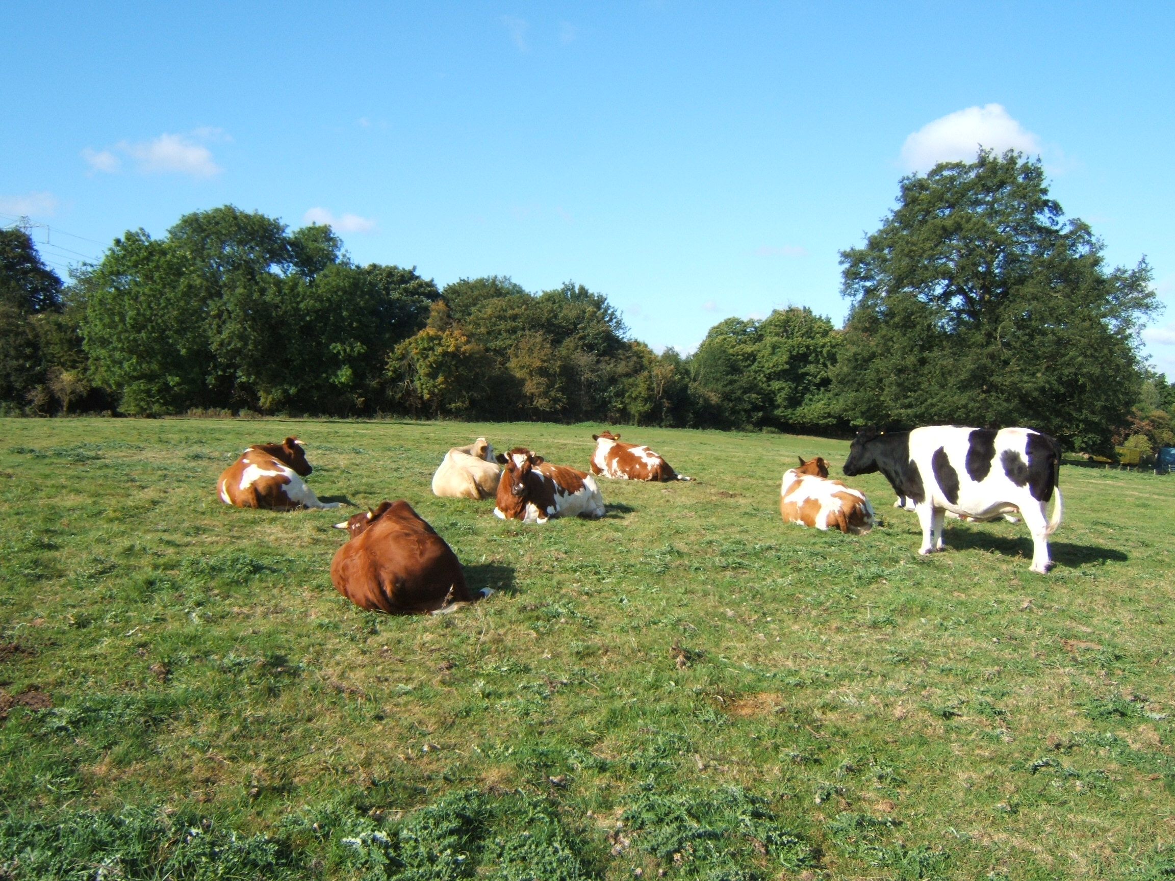 Gaudiya Vaishnava Hindu ISKCON Temple in the village of Aldenham near Watford